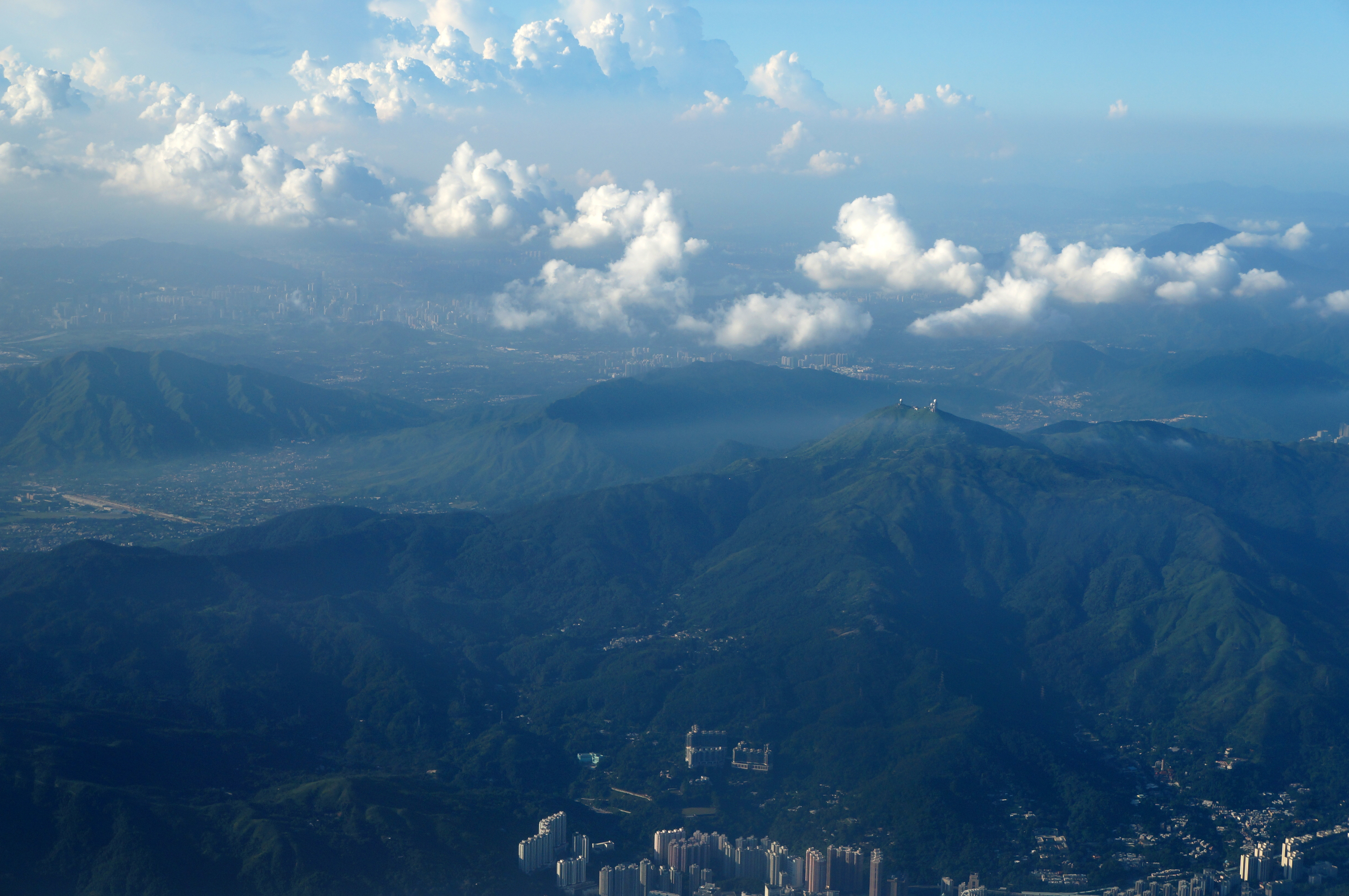 Photo of Tai Mo Shan